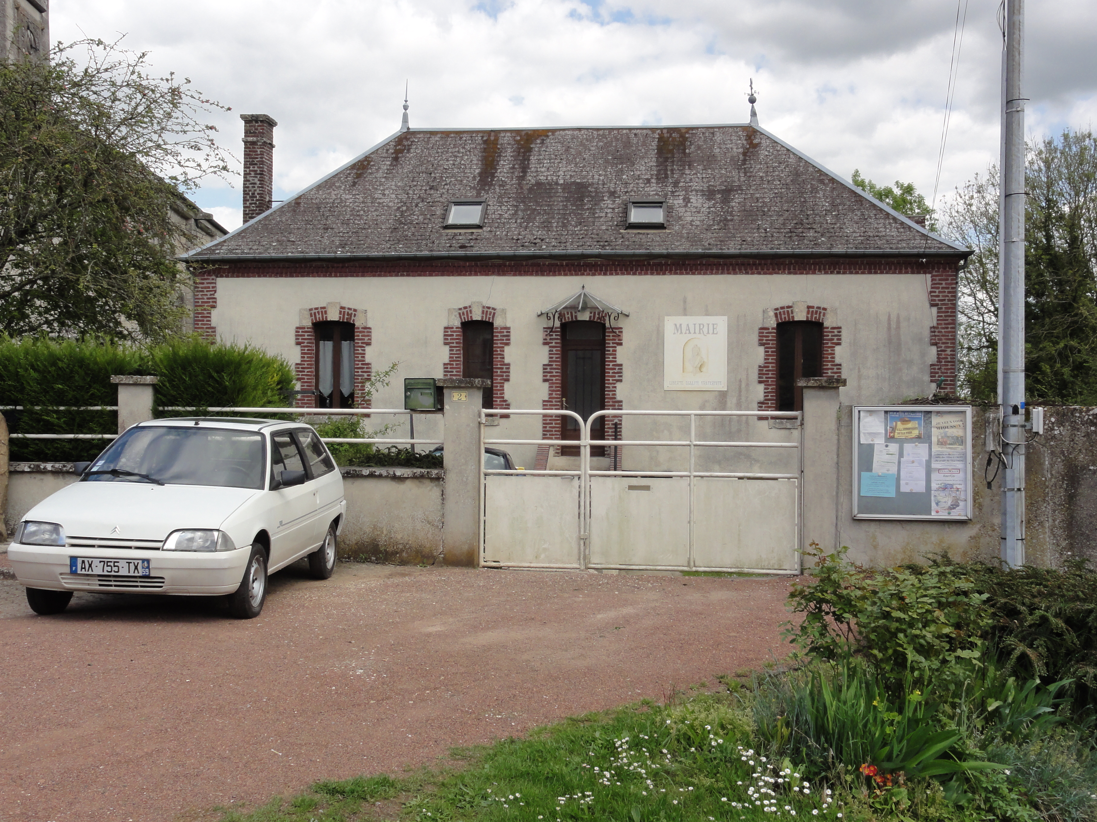 Montbavin (Aisne) mairie